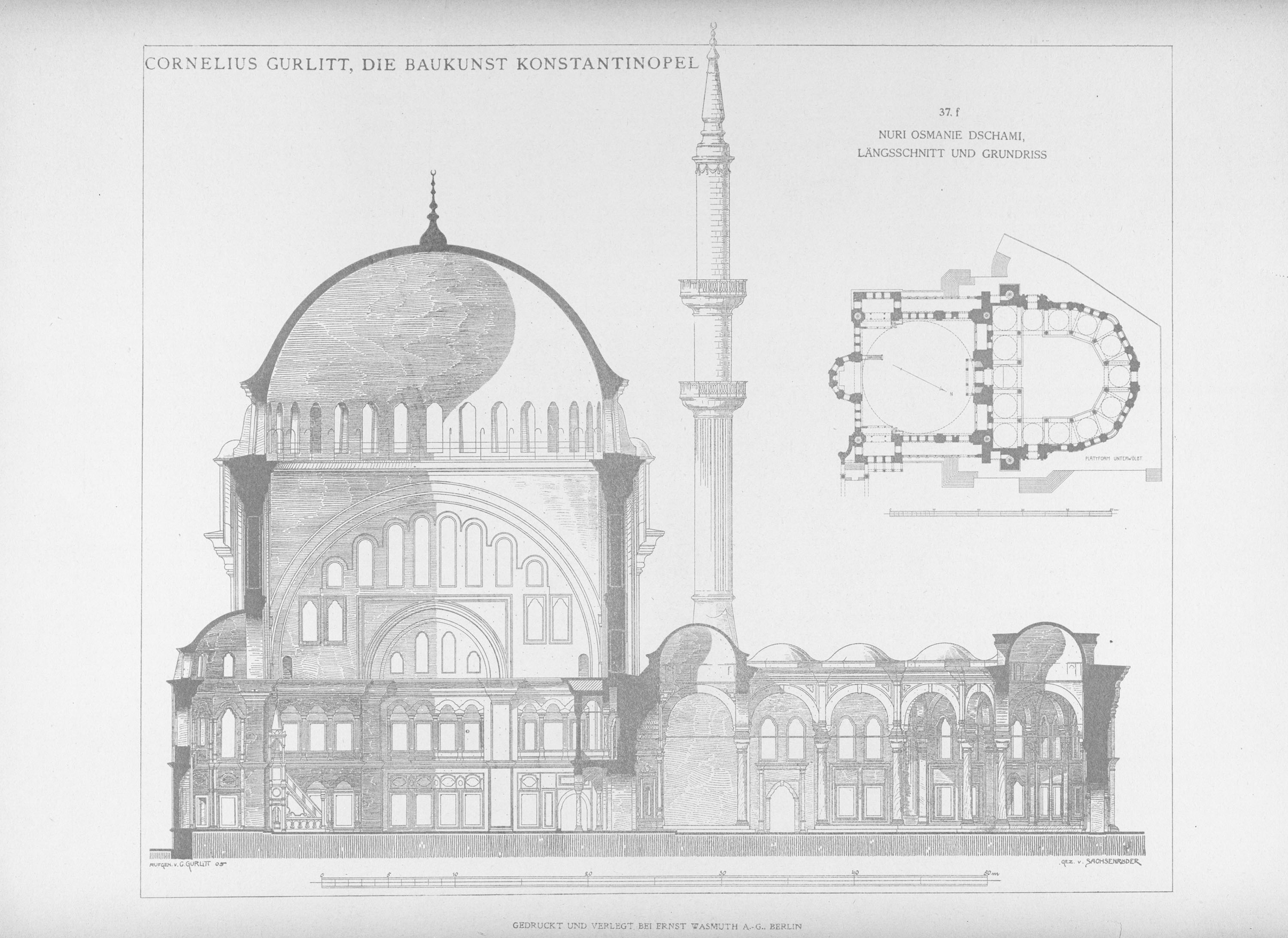 Section and plan of the Nuruosmaniye Mosque, Istanbul.